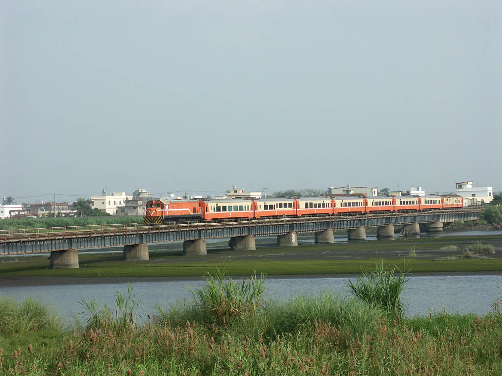 Travel Star of Kenting